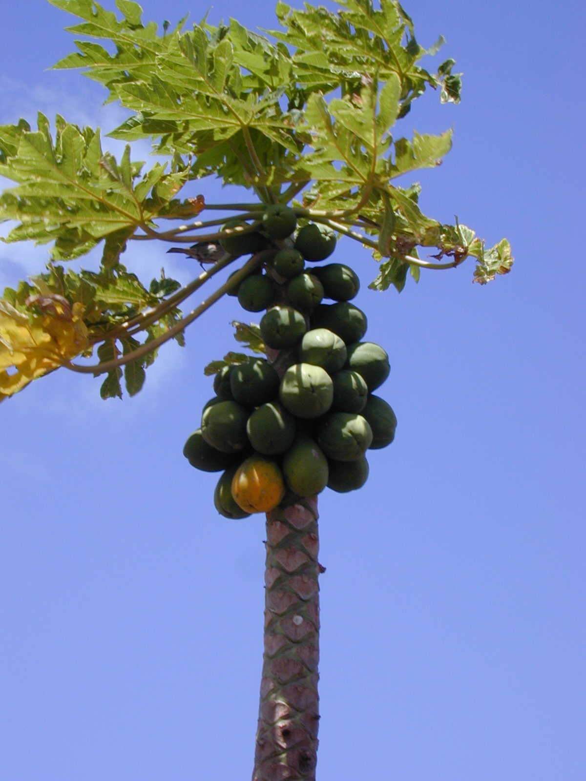 Carica papaya (fruit). Location: Maui, Lahaina